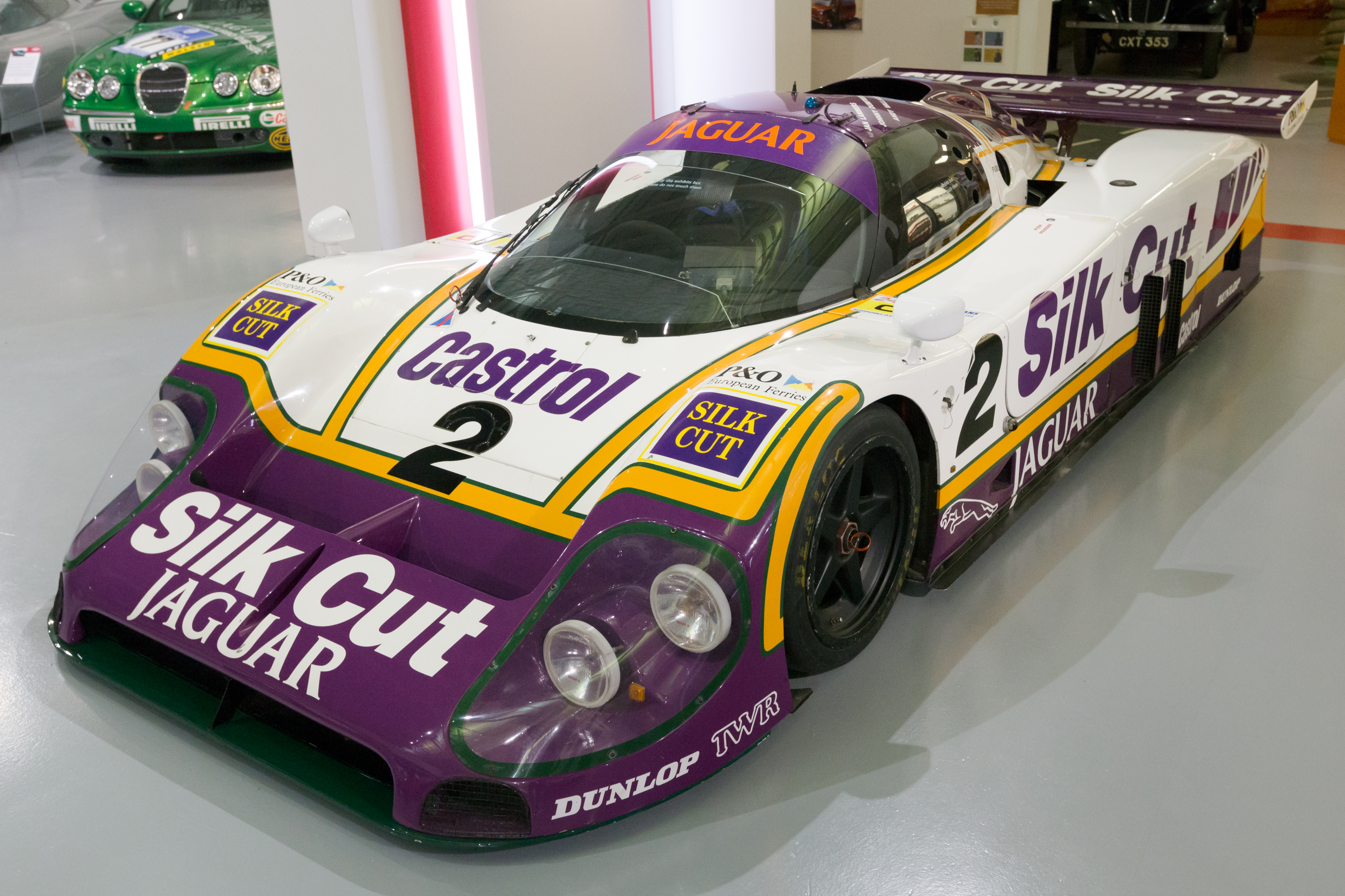 1988 Jaguar XJR-9, 24 Hours of Le Mans winner